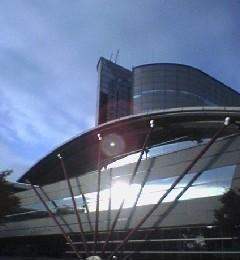 Tokyo Metoropolitan Institute of Technology